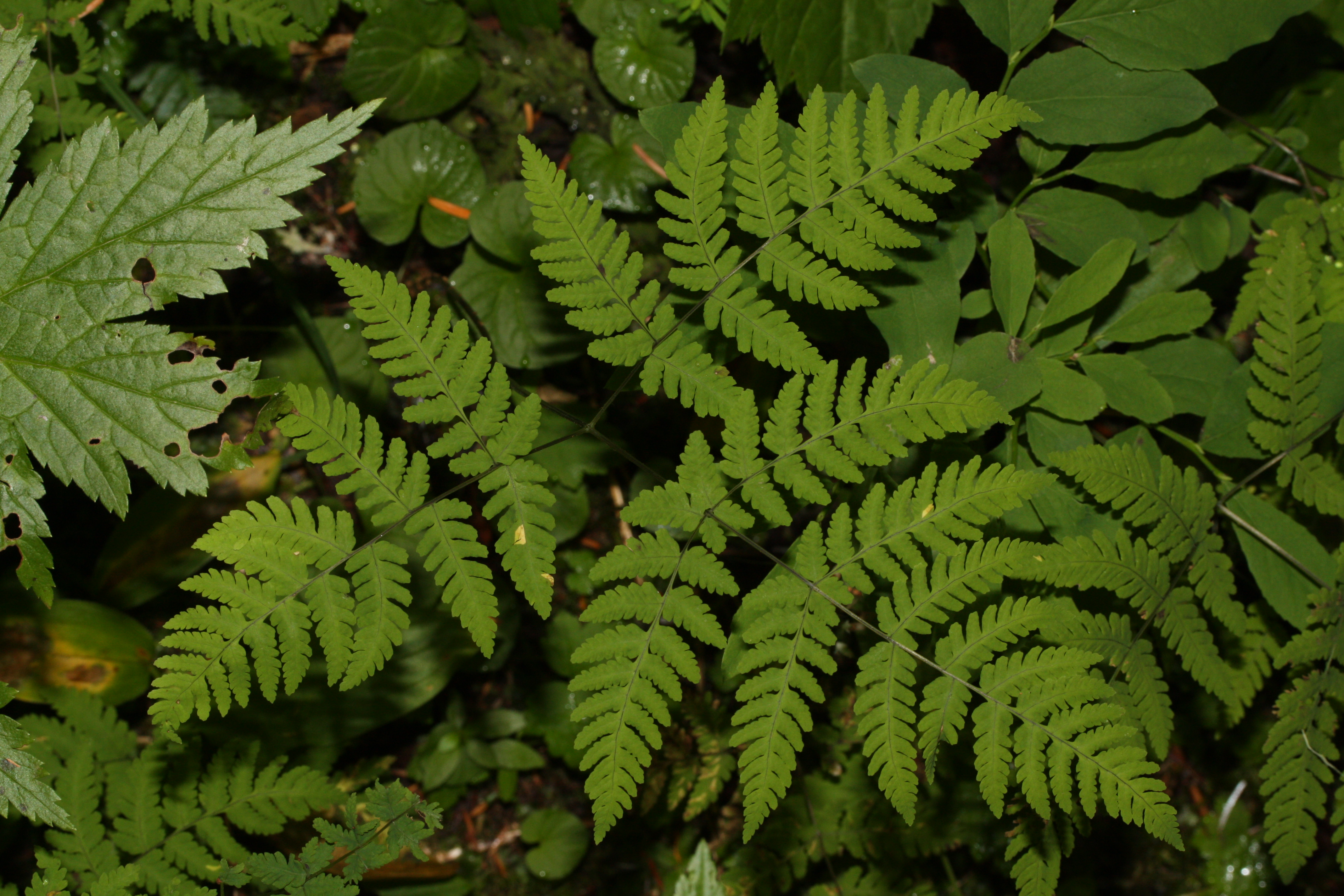 Common Oak Fern, Northern Oak Fern